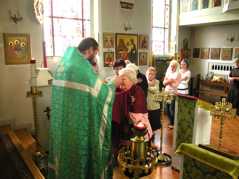 Priest distributing Holy Communion at Holy Protection Church, Düsseldorf.